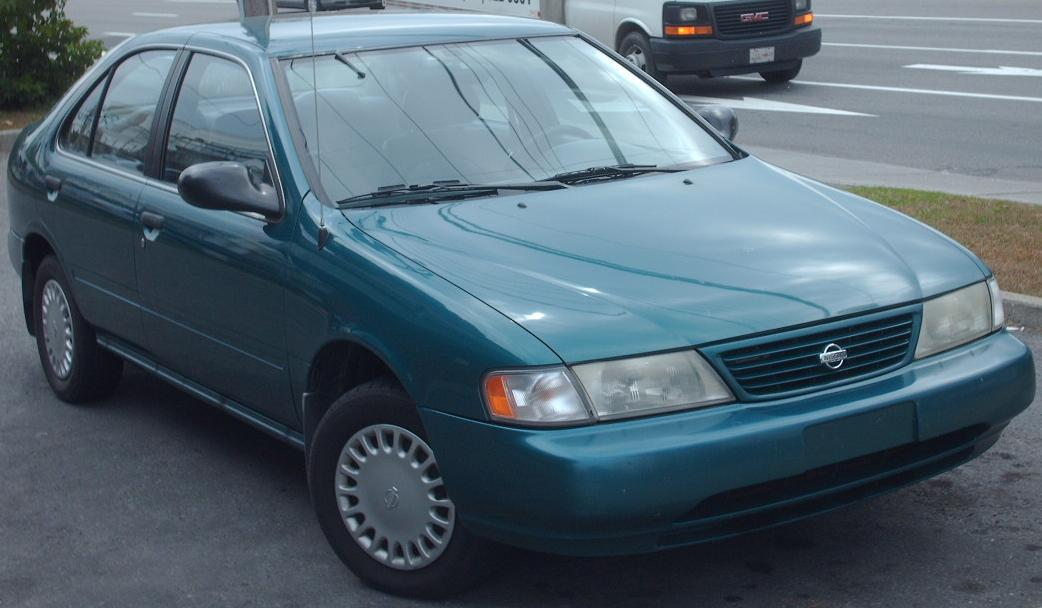 1995-1997 Nissan Sentra photographed in Montreal, Quebec, Canada.